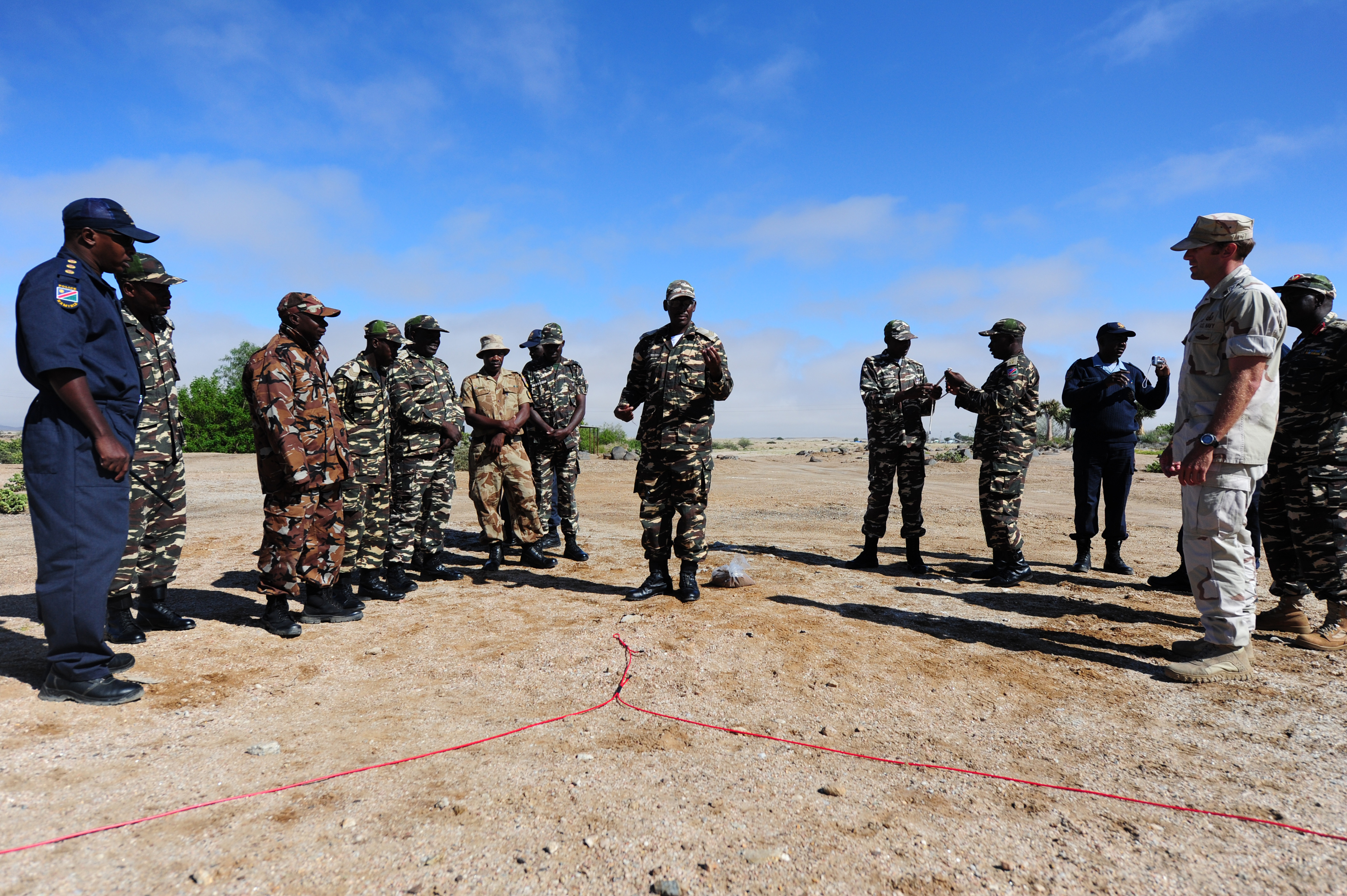 Master EOD technician, U.S. Navy Petty Officer 1st Class John C. Richards, EOD Mobile Unit 11, Combined Joint Task Force-Horn of Africa, observes as Armed Forces Namibia Defense Forces and Namibian National Police personnel demonstrates demolition initiation procedures on an explosive training aid during the practical application phase of a joint training seminar, April 26, in Namibia. EODMU-11 has teamed with Namibia to support the Humanitarian Mine Action program and provide familiarization with International Mine Action Standards.